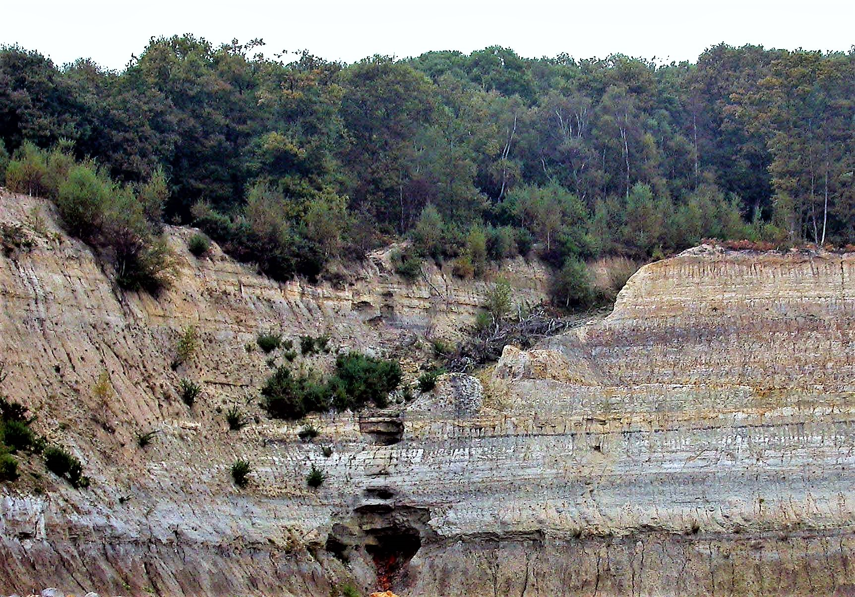 Bexhill Brick Pit below Little Higher Wood in East Sussex, England. The cliff shows the layers of strata of the Hastings Beds with grey areas of Wadhurst Clay needed for the bricks and tiles. The buff/brown areas are sandstones.